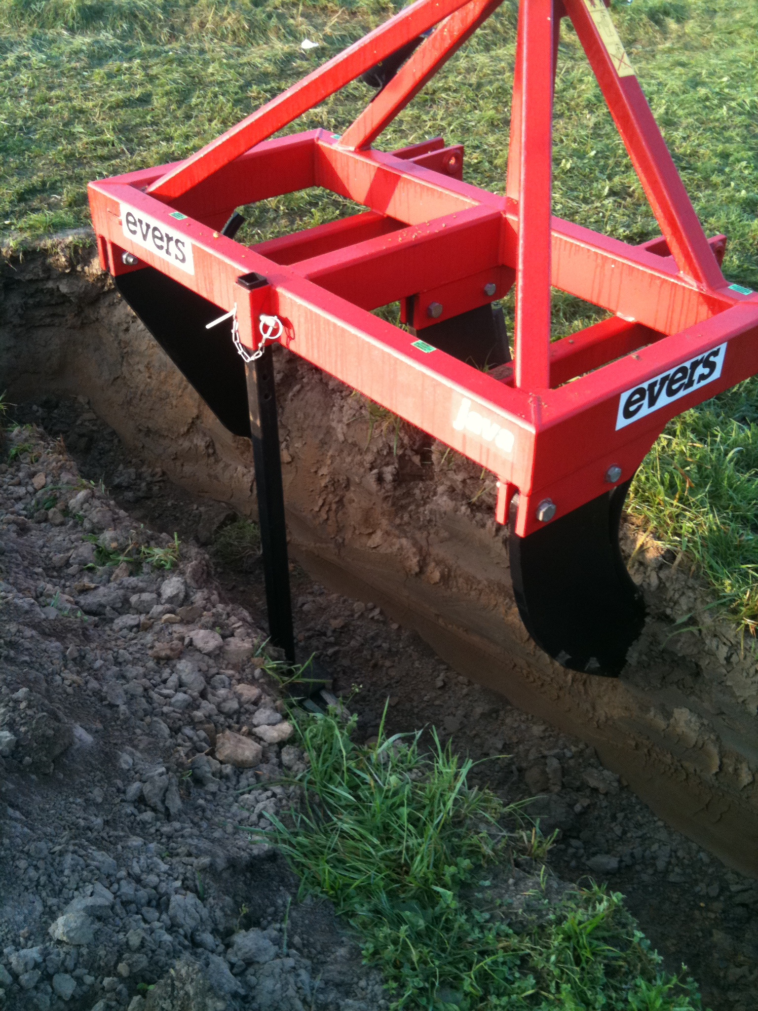 subsoiler, brand is Evers